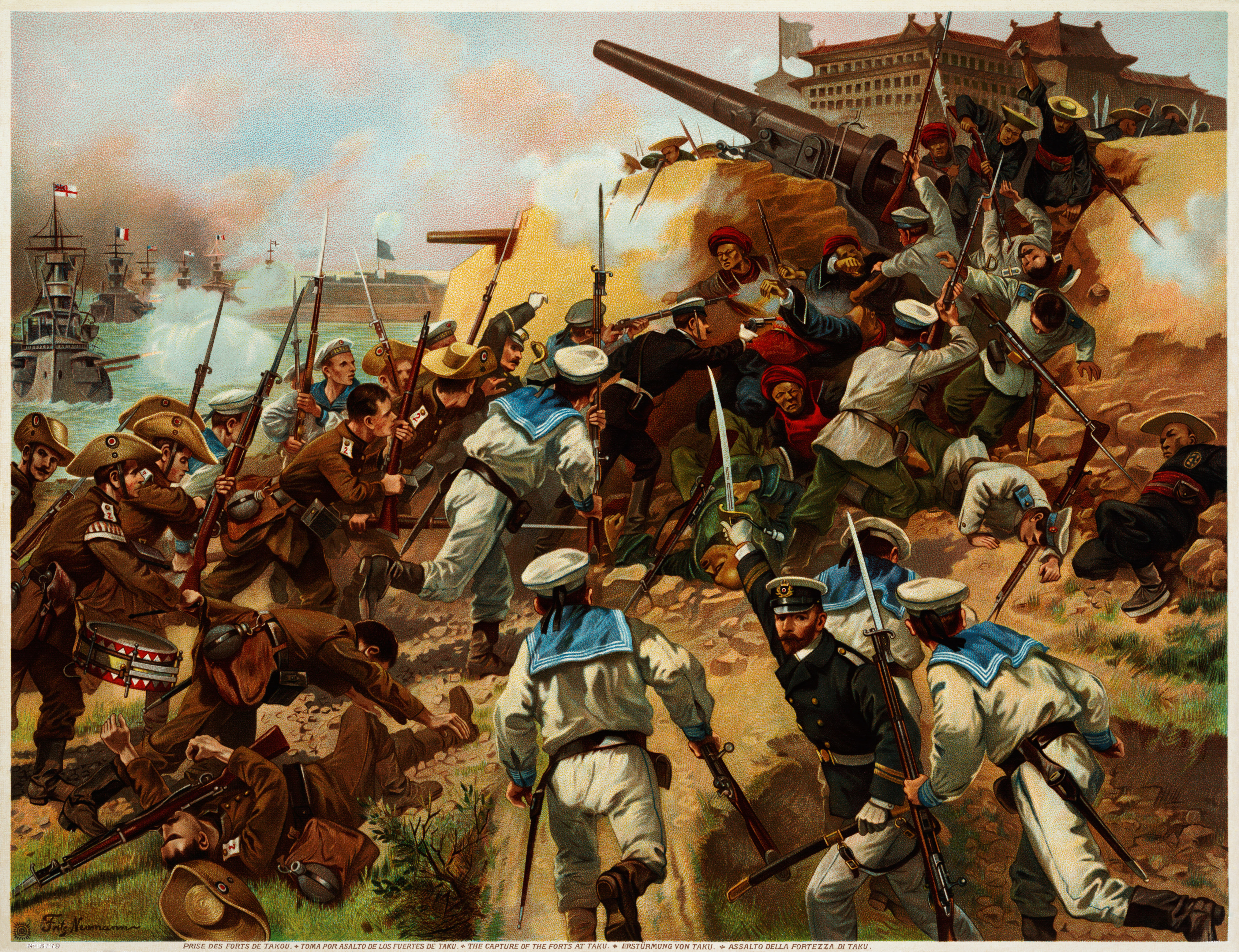 The Capture of the Forts at Taku